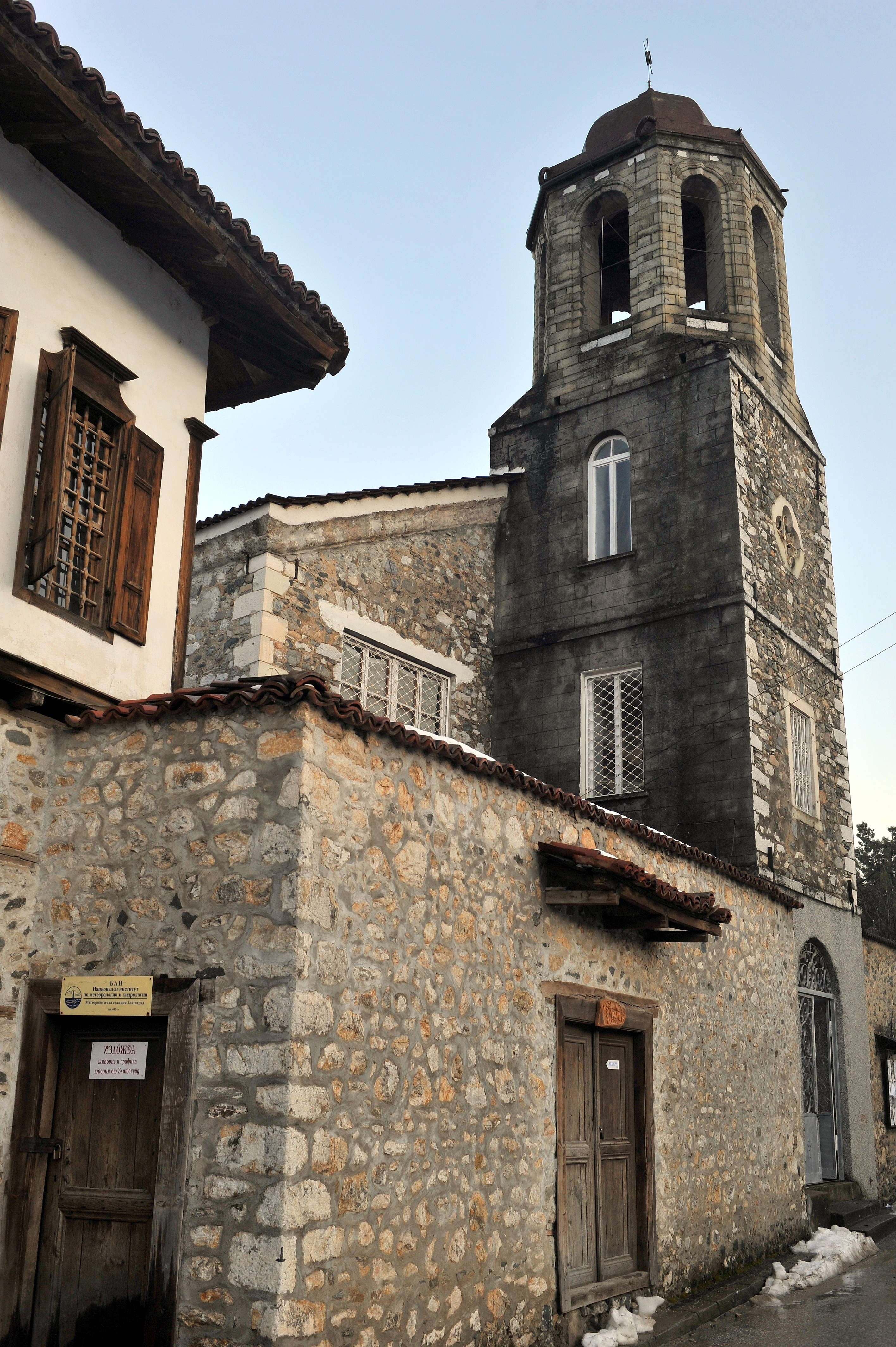 Orthodox church - Zlatograd - Bulgaria.